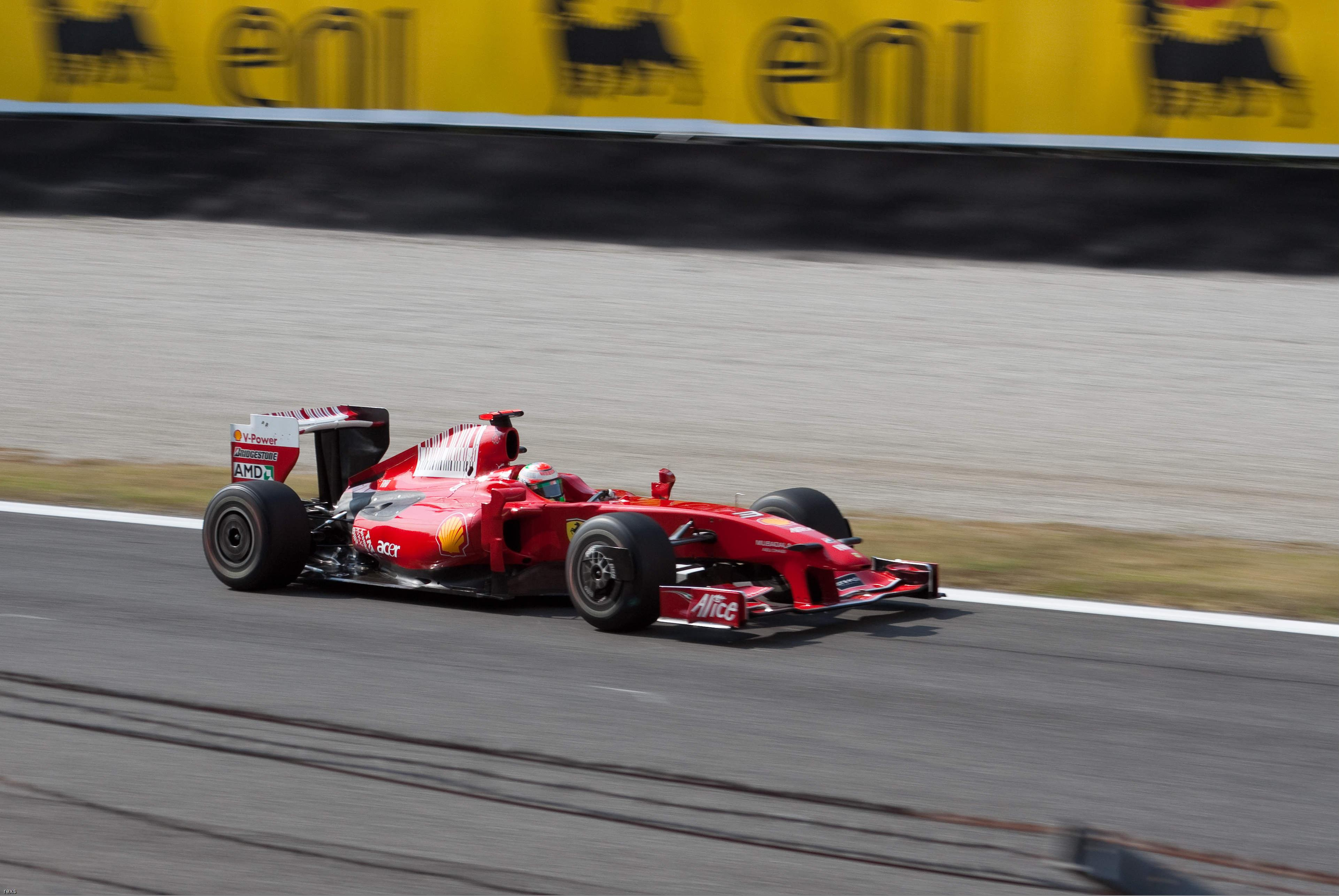 Giancarlo Fisichella driving for Scuderia Ferrari at the 2009 Italian Grand Prix.